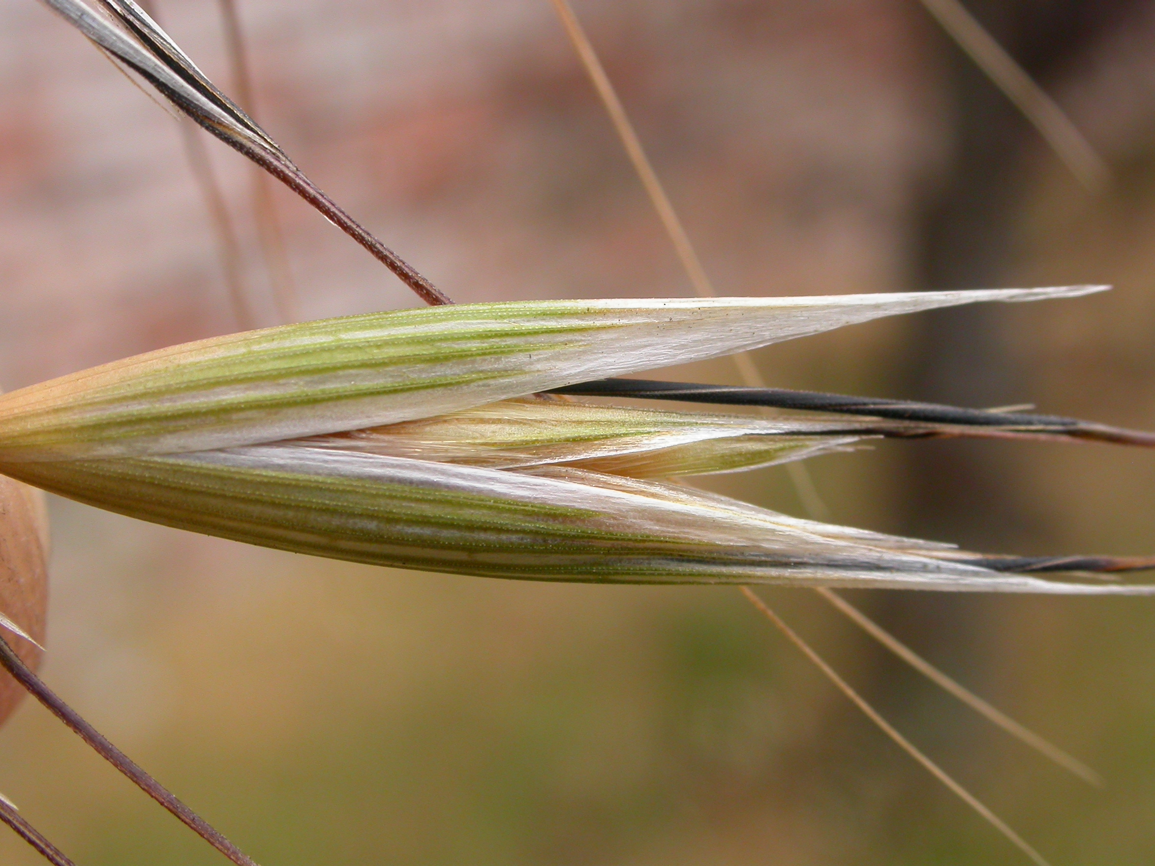 The long slender bifid tip of the lemma is diagnostic of this species.